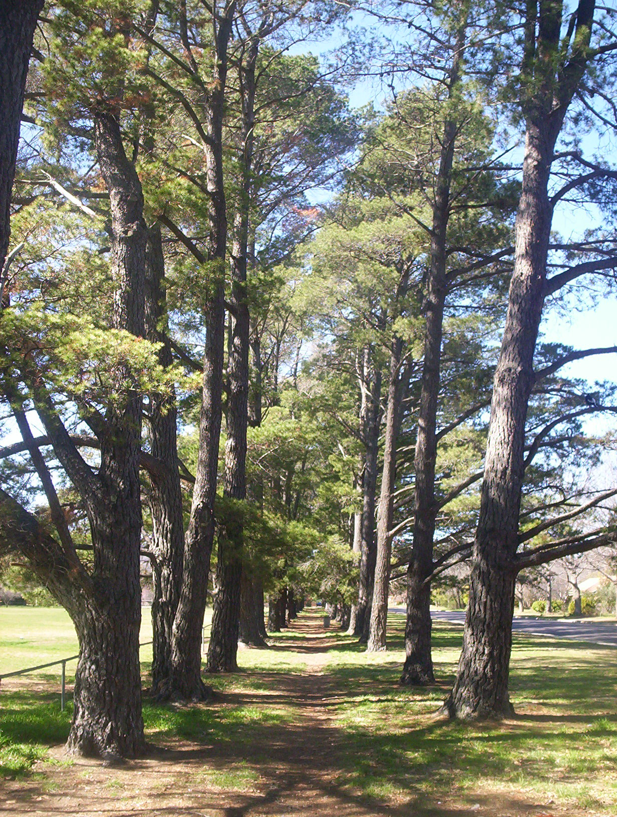 Trees at Downer Oval. i took the photo Cfitzart 03:38, 25 August 2005 (UTC)